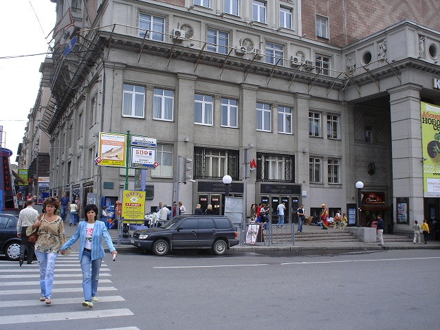 Mayakovskaya Metro Station in Moscow: Entrance